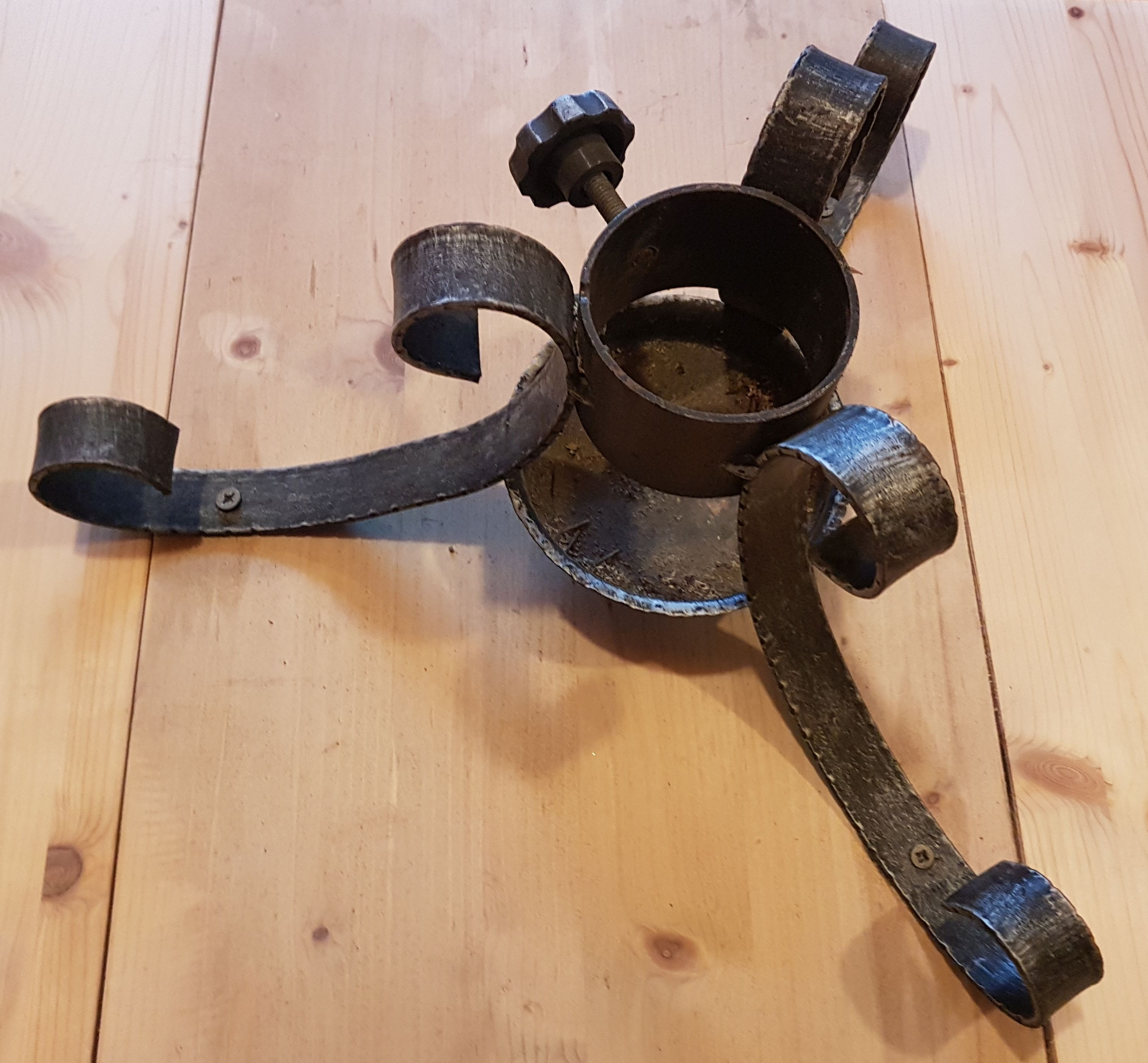 Forged Christmas tree stand with screw fastening in Dornbirn, Vorarlberg, Austria. Made in 1995.